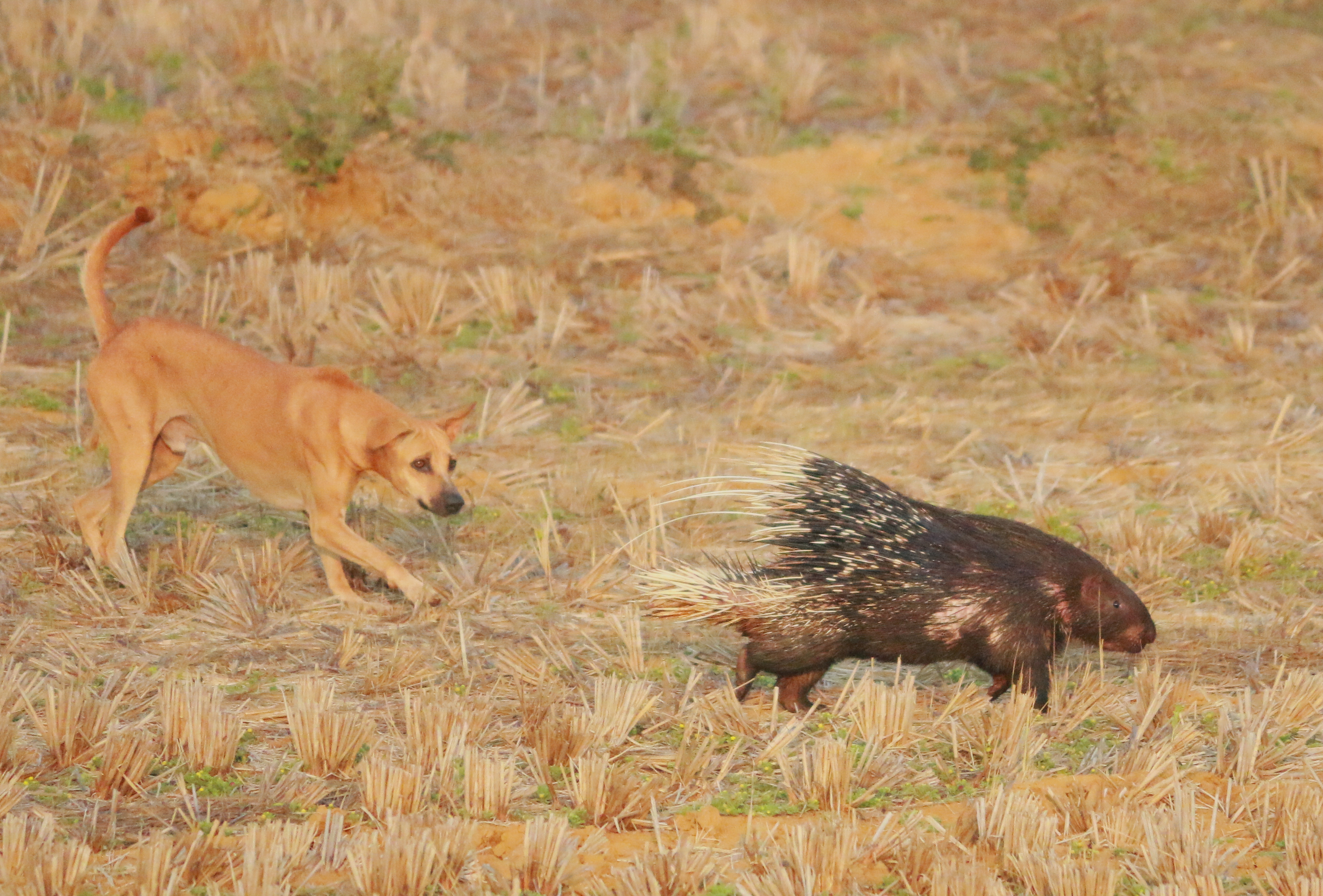 Porcupine